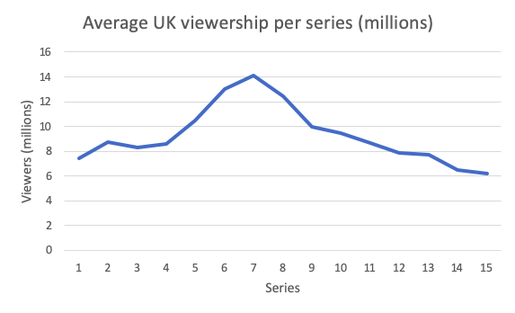 X Factor viewership trend over the last 15 series.